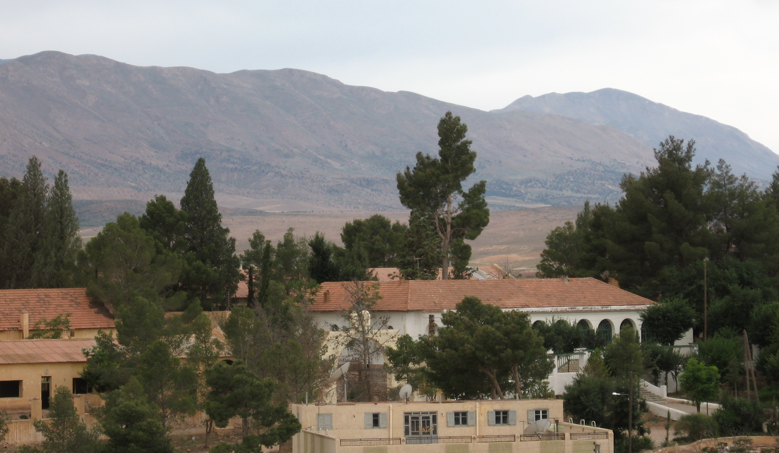 Jbel Ayachi looms over the town of Midelt. Photograph taken by Wikipedia contributor InnocentsAbroad in June, 2006.